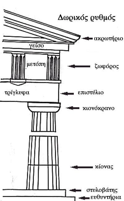 A graph showing the ancient Doric rhythm in Greek